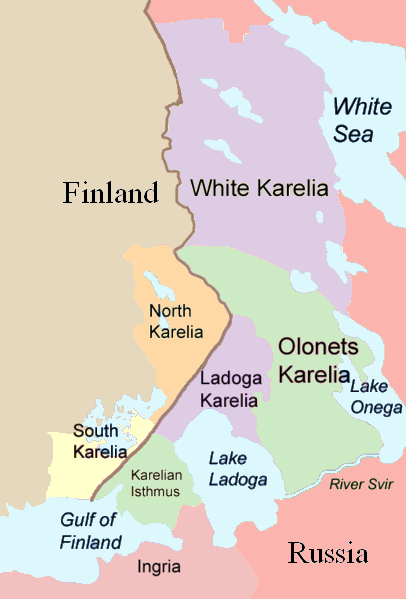 A map of the traditional Karelian regions. Note that Ingria is not considered part of Karelia.